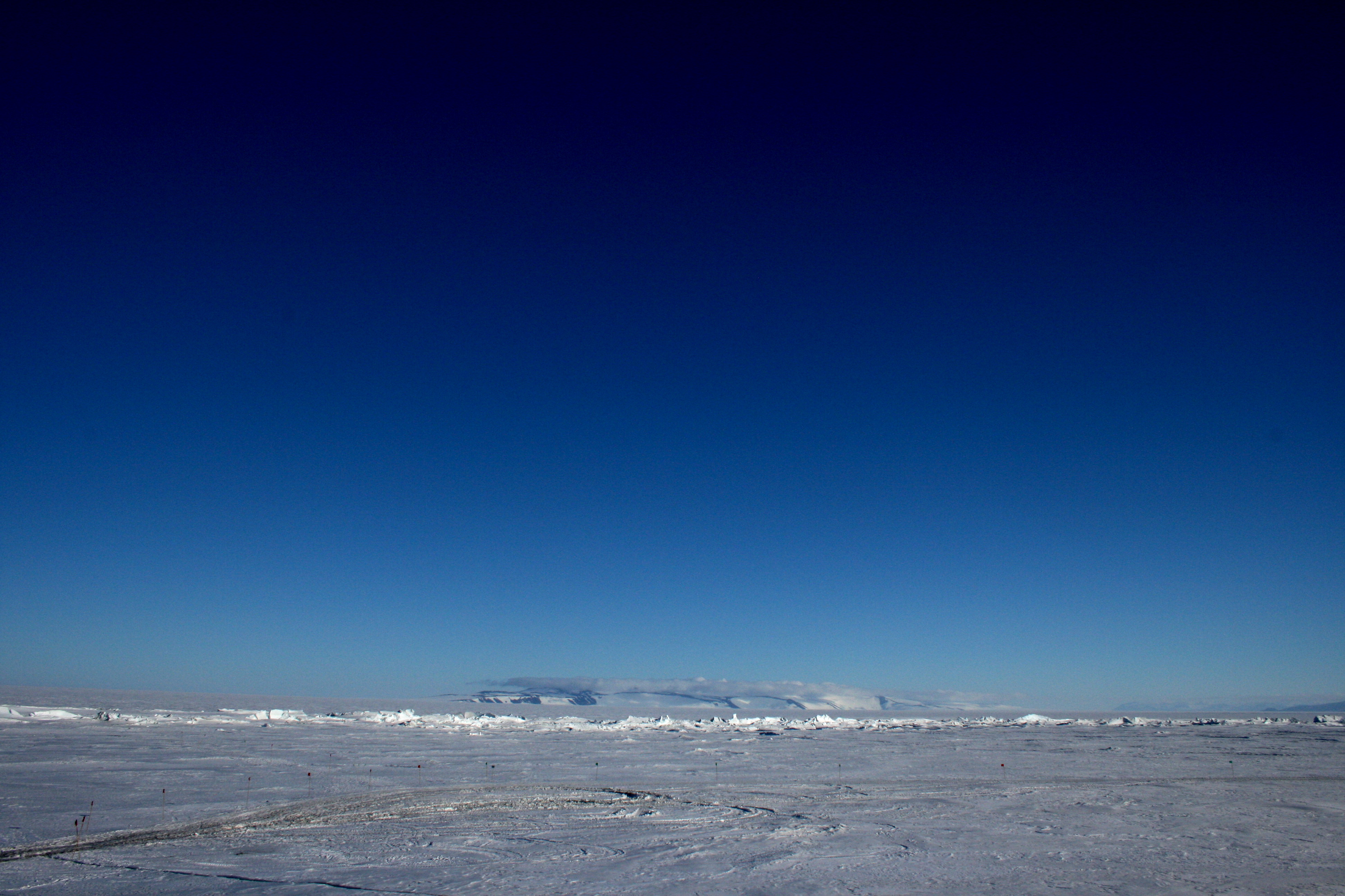 White Island. Antarctica Pressure Ridges